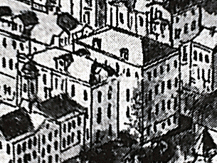 Aerial view of New Brunswick, NJ, 1910